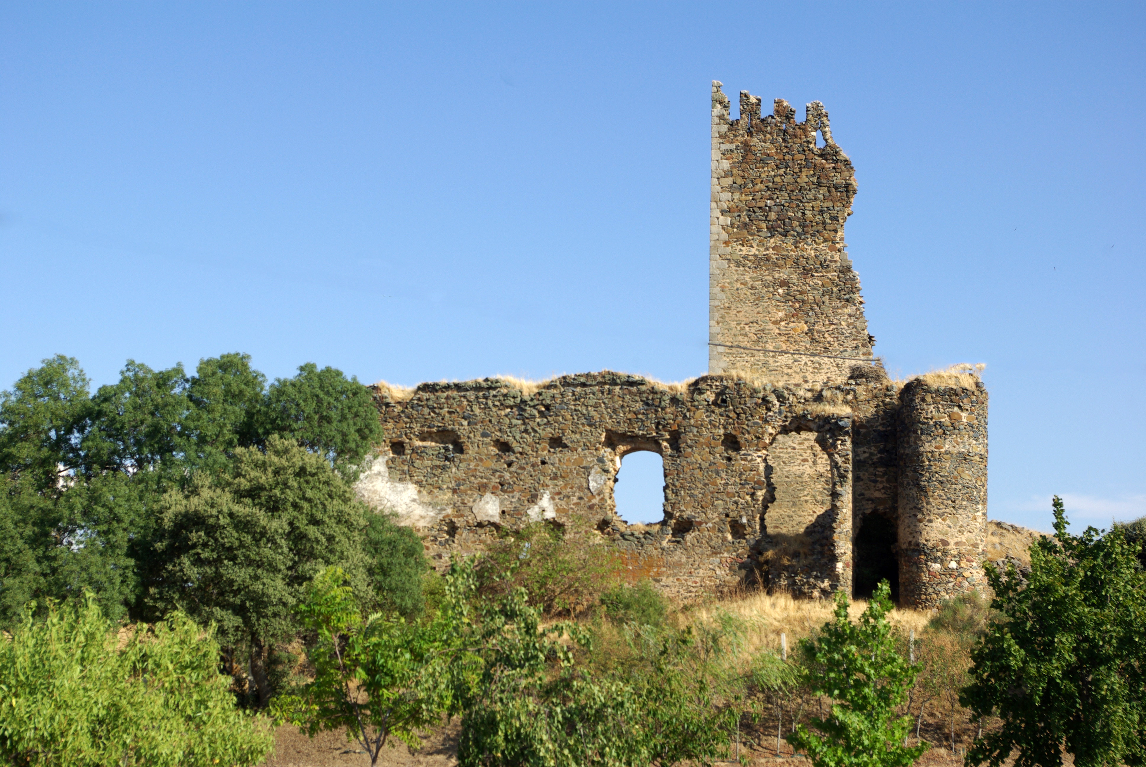 Castle of Tejeda. Tejeda y Segoyuela (Salamanca, Spain).